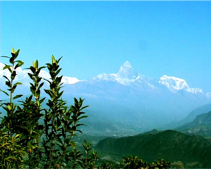 mountain